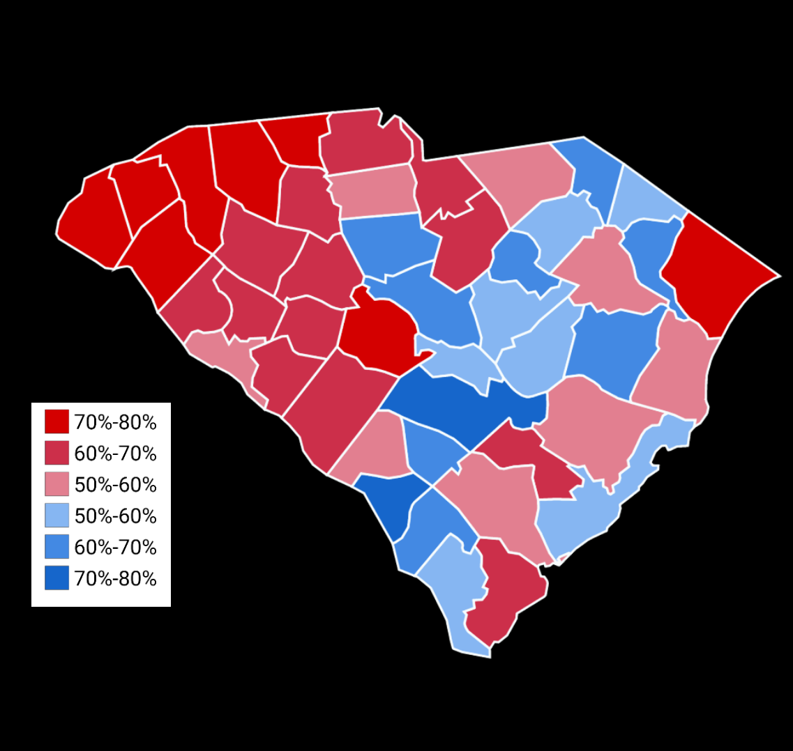 Map showing the results of the 2014 South Carolina Secretary of State general election by county.